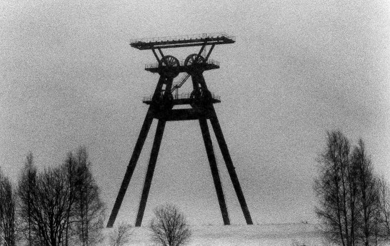 Headframe of former shaft 403 of the SDAG Wismut, mining devision Drosen near Ronneburg, Thuringia, Germany